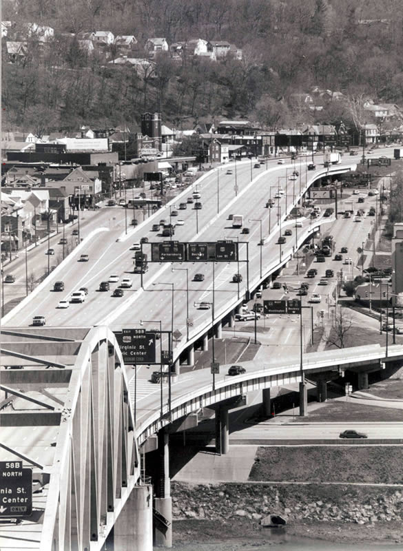 The Interstate 64 viaduct in downtown Charleston. Image taken by Ray Lewis of the West Virginia Department of Transportation.